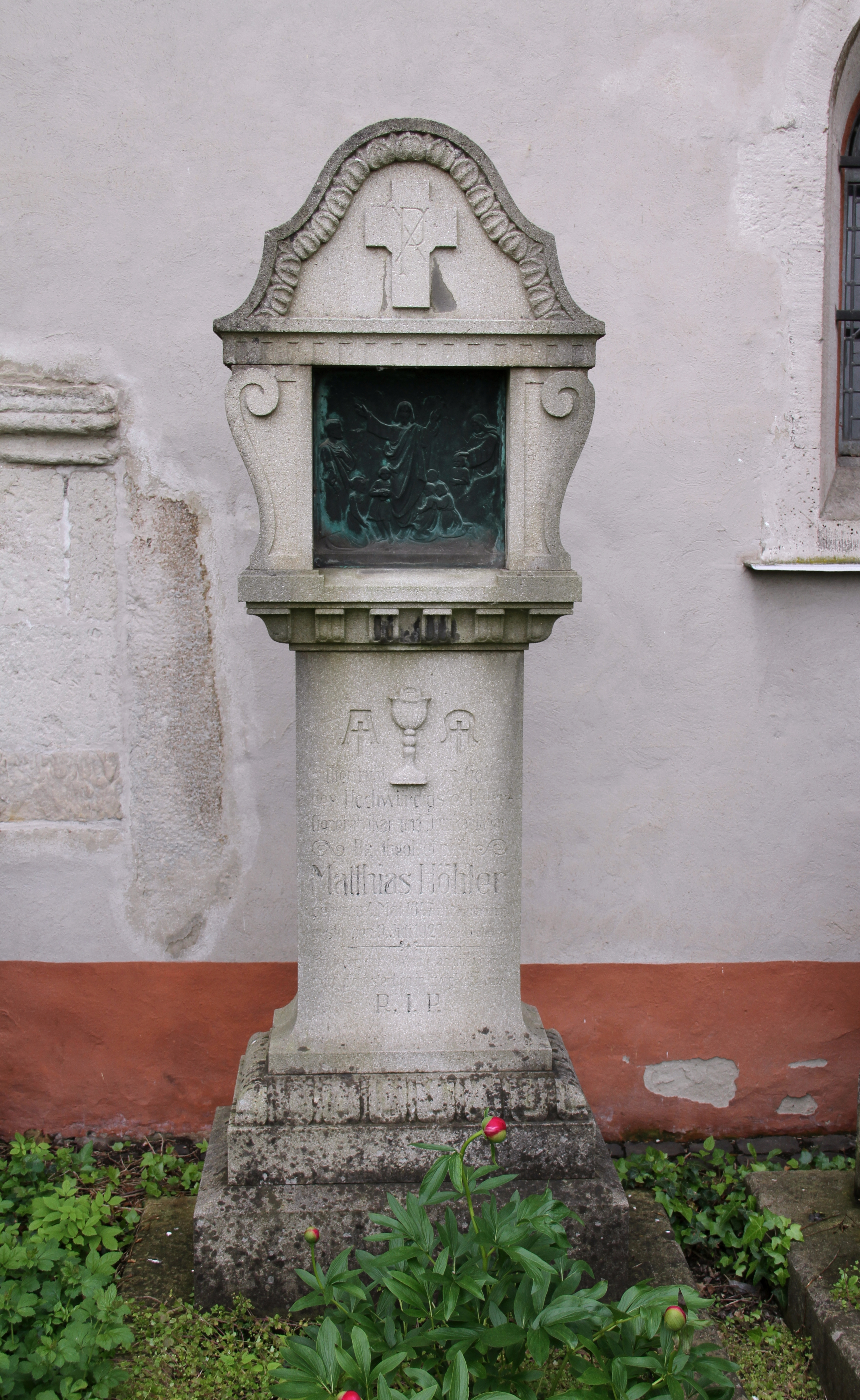 Grablege der Domherren on the former cemetary next to the Limburg Cathedral